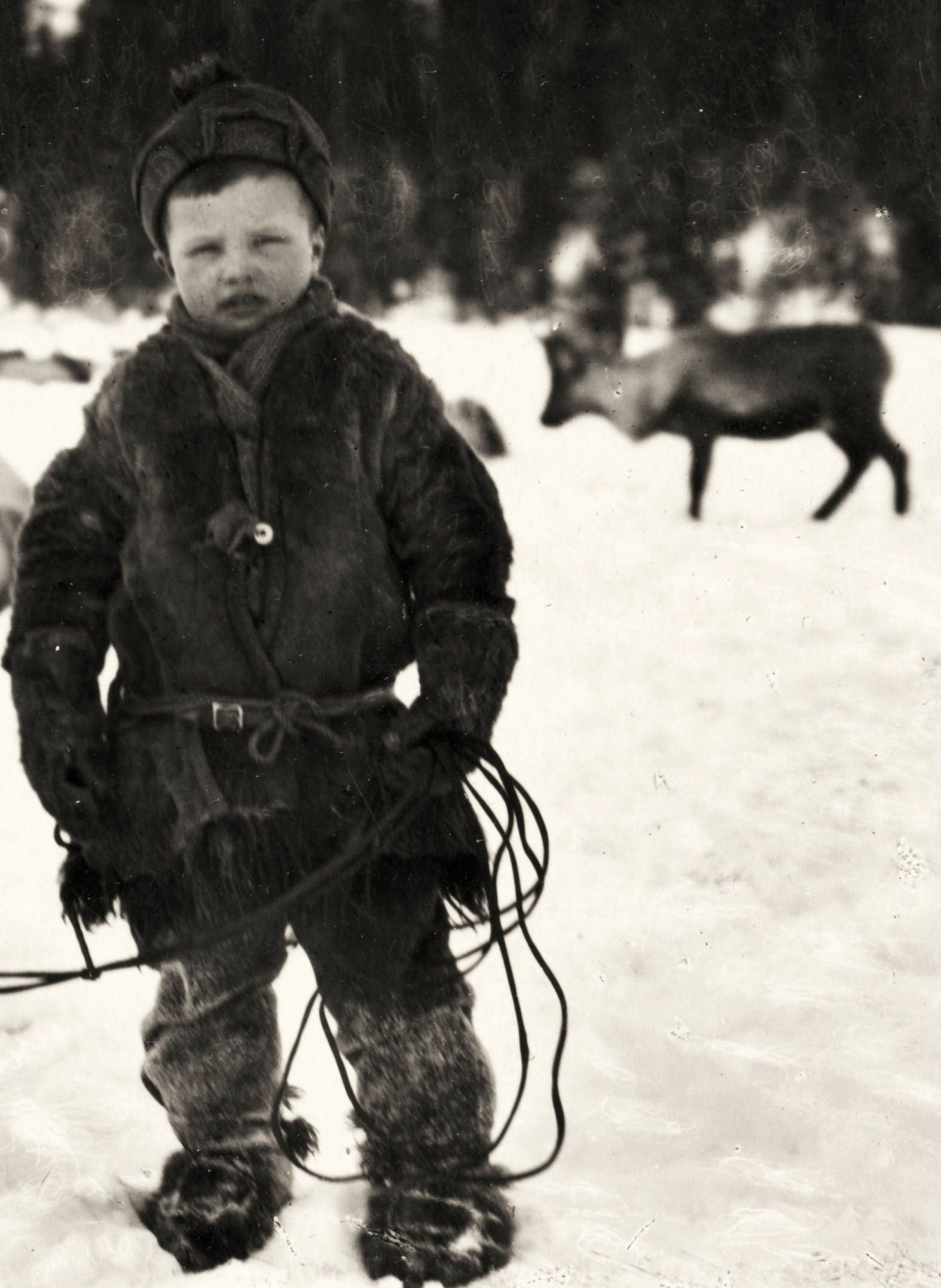 Sami boy Klas Andersson from Frosteviken, Strömsund, Jämtland, Sweden, 1923